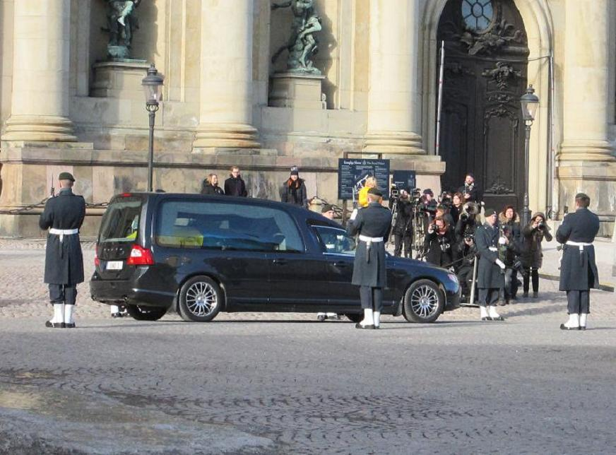 Hearse with the remains of Princess Lilian keaves Stockholm Palace for burial in Solna after her funeral, as released by image creator RistessonPlace: Stockholm Palace, Sweden